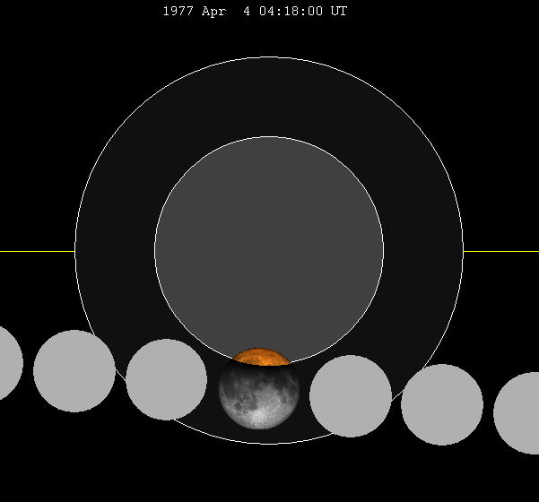 April 1977 lunar eclipse chart of moon's path through the earth's shadow. thumb